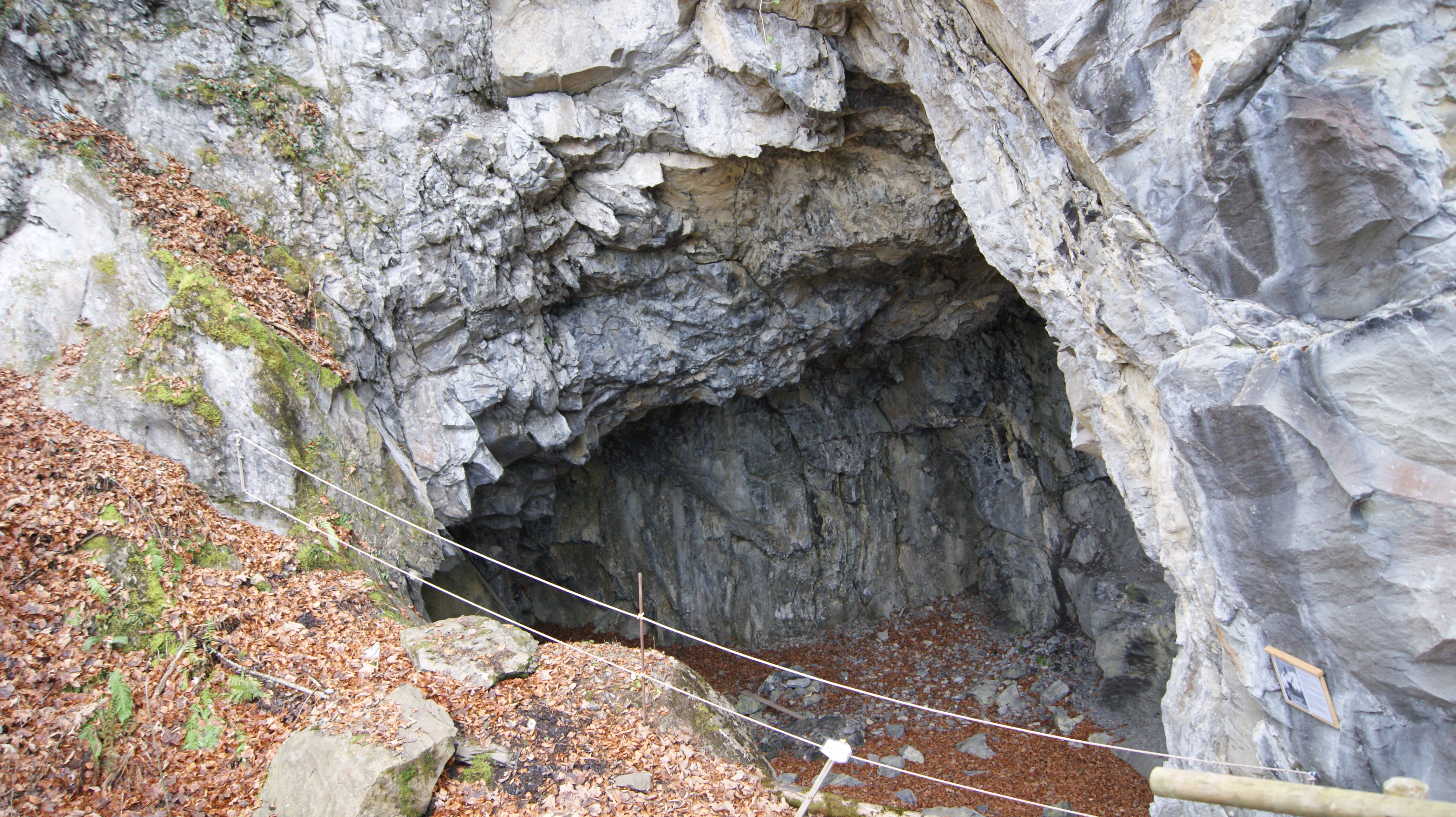 The Whetstone cave (Wetzsteinhoehle) is located in the sub-plot "Steinbruch" (meaning: "quarry") in the village Bizau in Vorarlberg, in the middle of the forest at about 700 masl in Austria. Below the Wetzsteinhoehle the Huettbach flows.